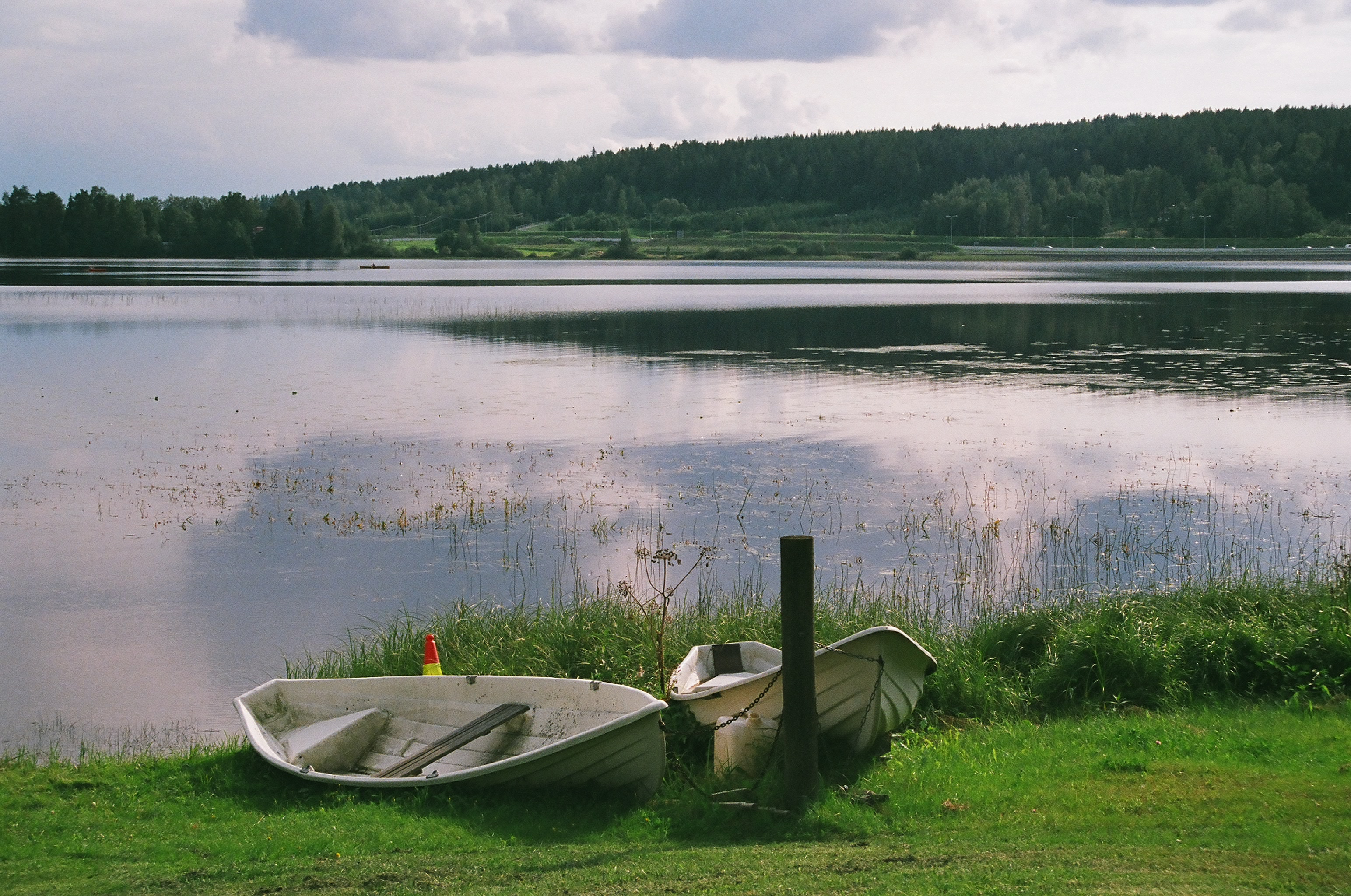 Rowing boats on the shore of Palokkajärvi in Jyväskylä, Finland